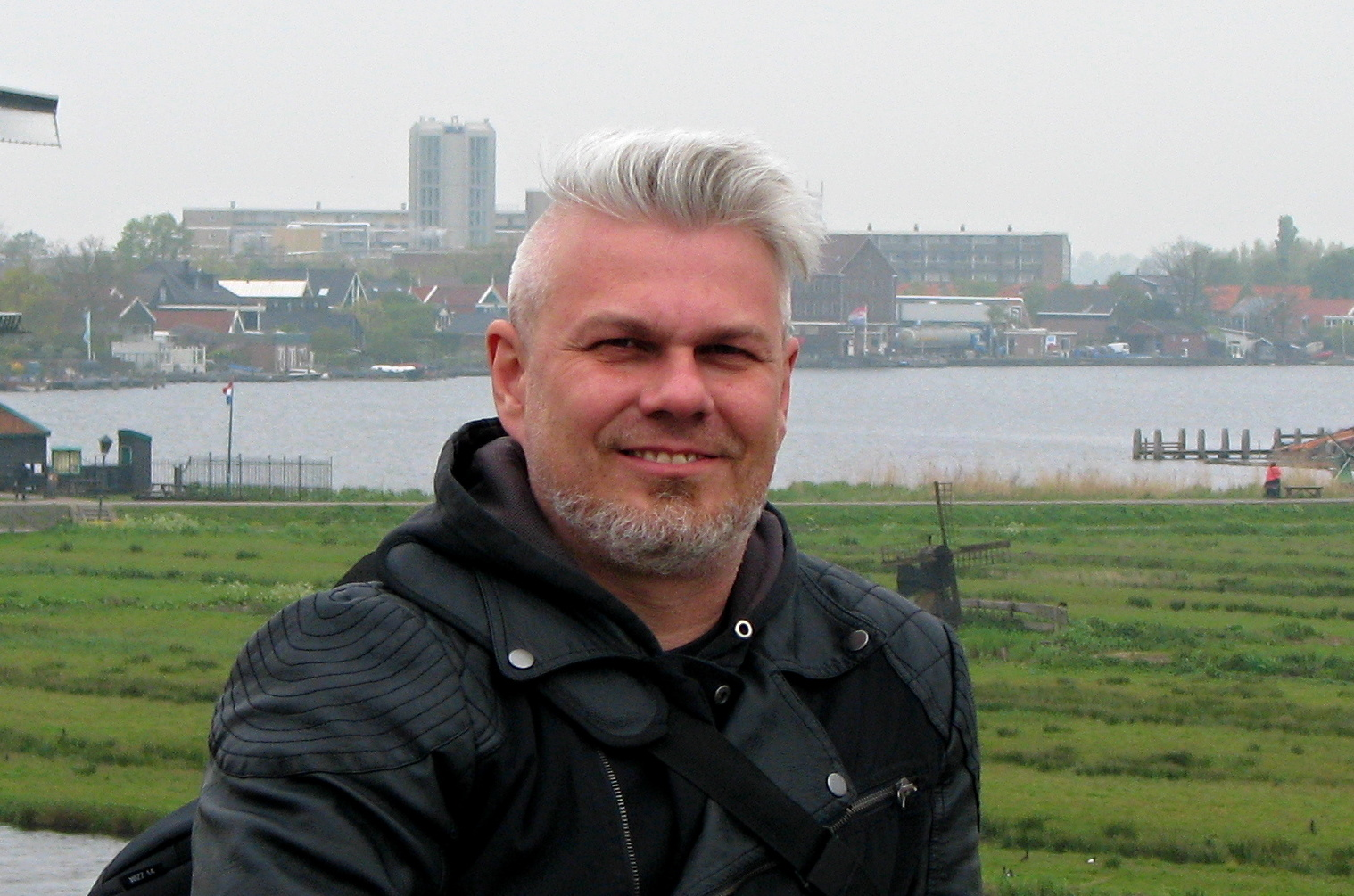 Jakub Bouda in Amsterodam